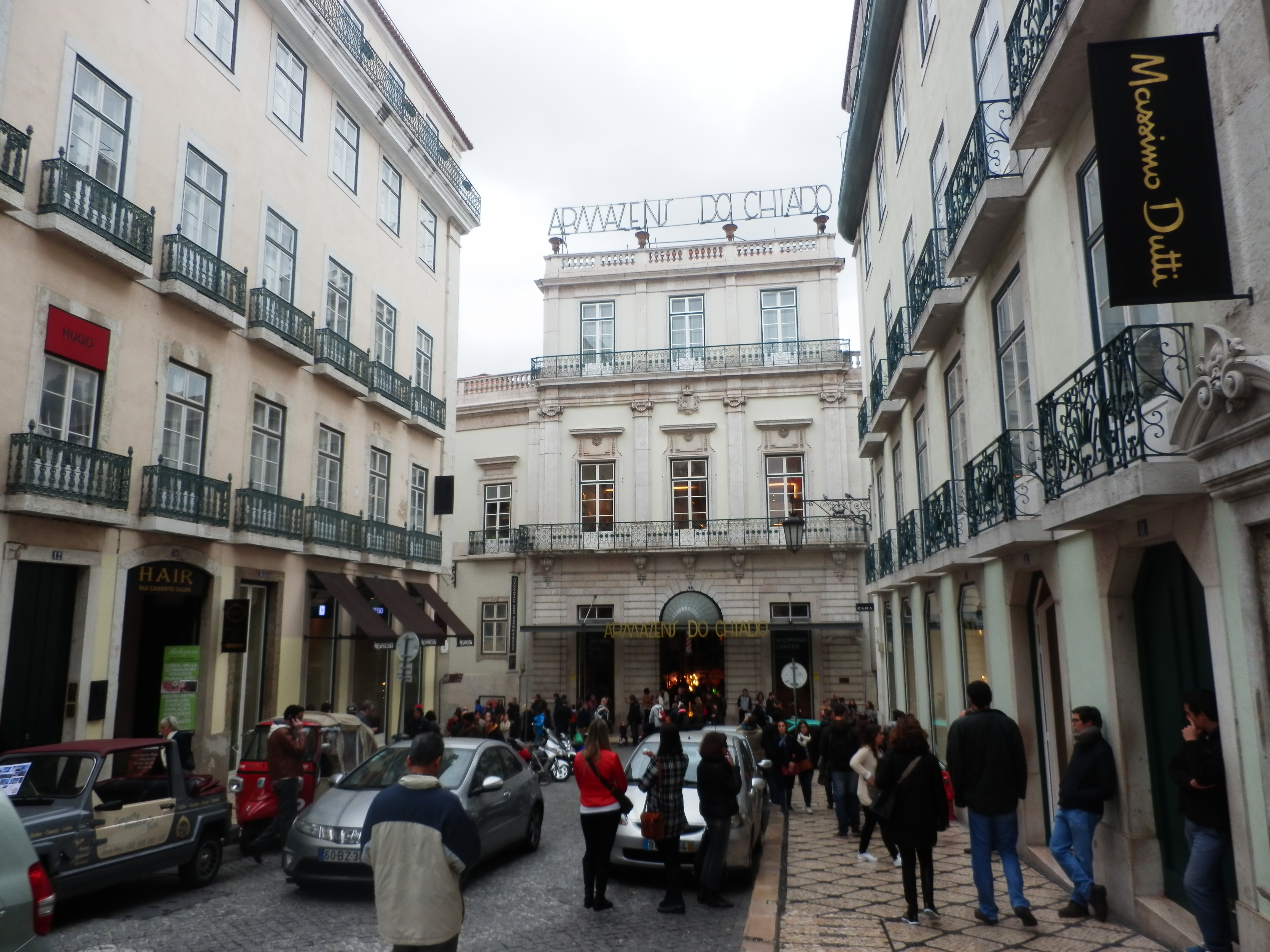 Destroyed by fire in 1988, now is a three story shopping mall.